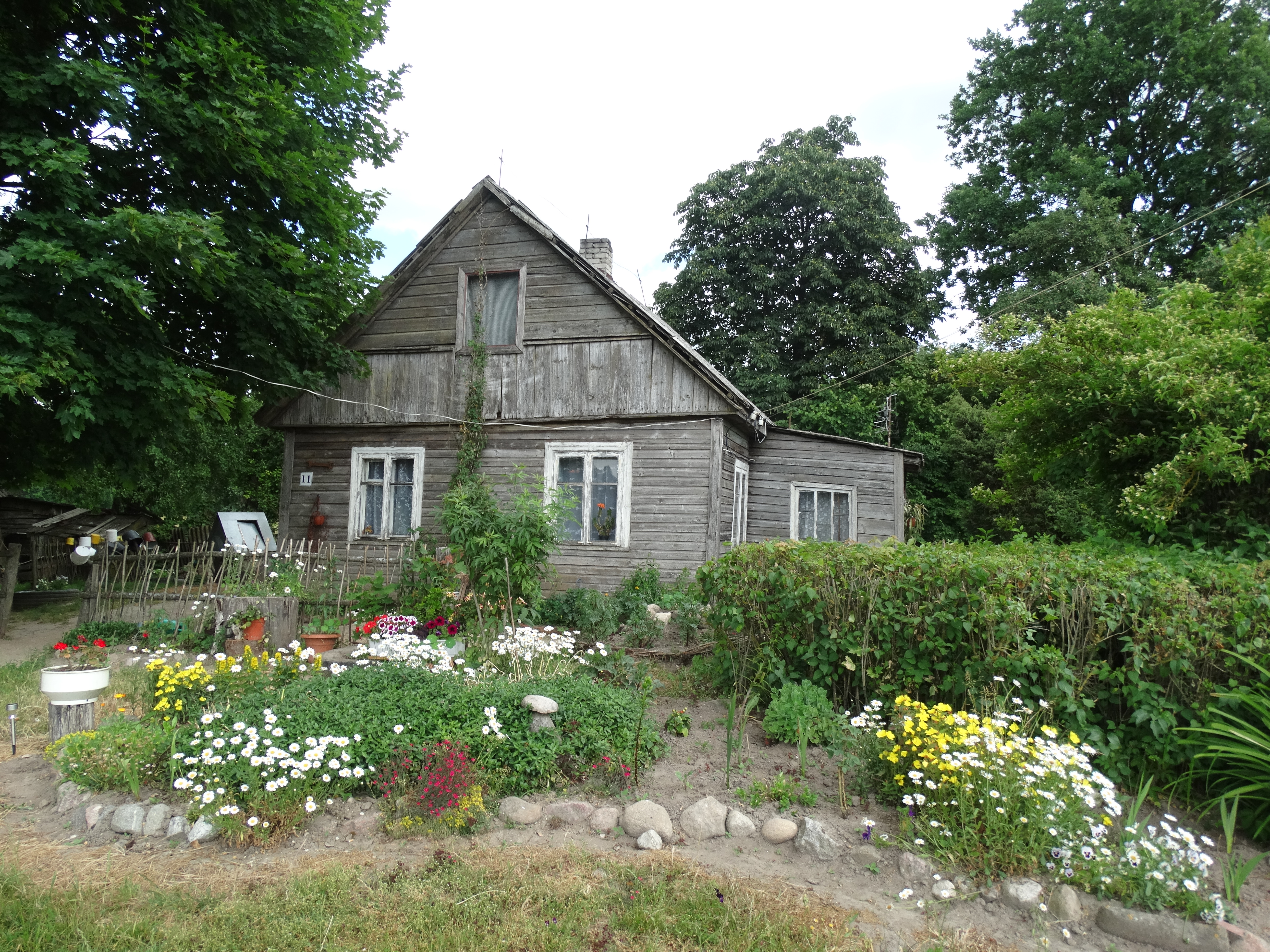 Kengiai, Raseiniai district, Lithuania